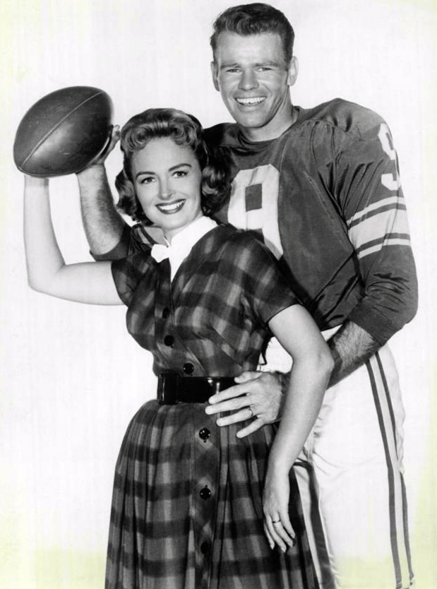 Photo of Donna Reed and football player Bill Wade from the television program The Donna Reed Show. Wade was a guest star on an episode of the show.